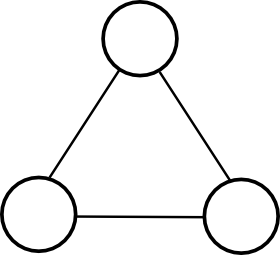 The complete graph of order 3, K3.